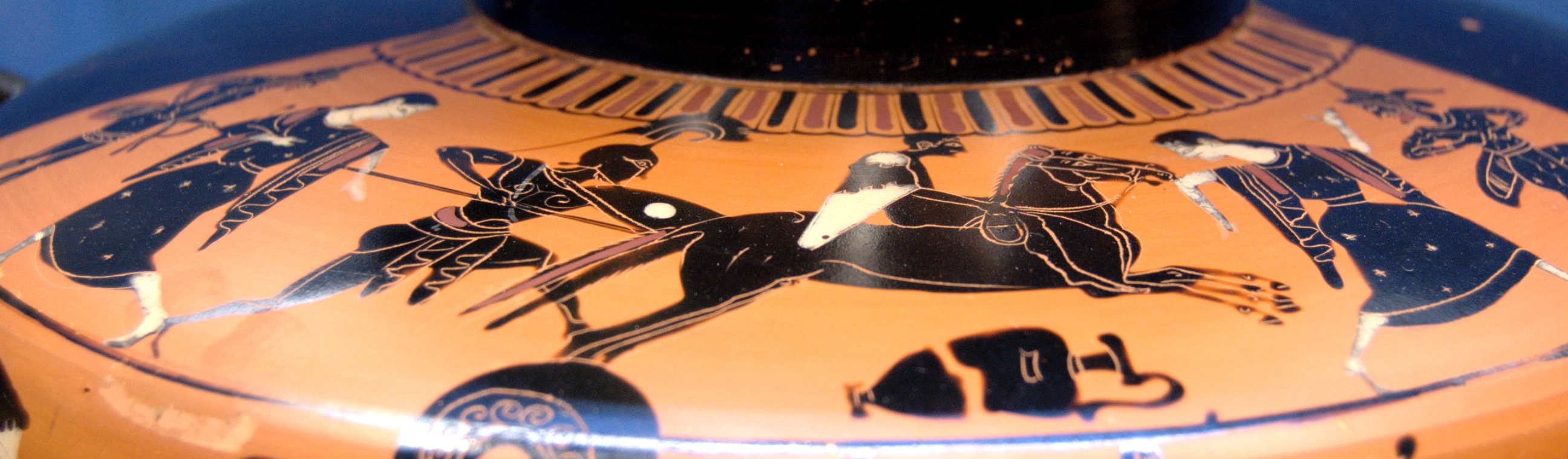 Achilles pursues mounted and disarmed Troilus, between two fleeing women (among which Polyxena?) and two Scythians. Shoulder of an Attic black-figure hydria, ca. 510 BC. From Vulci.